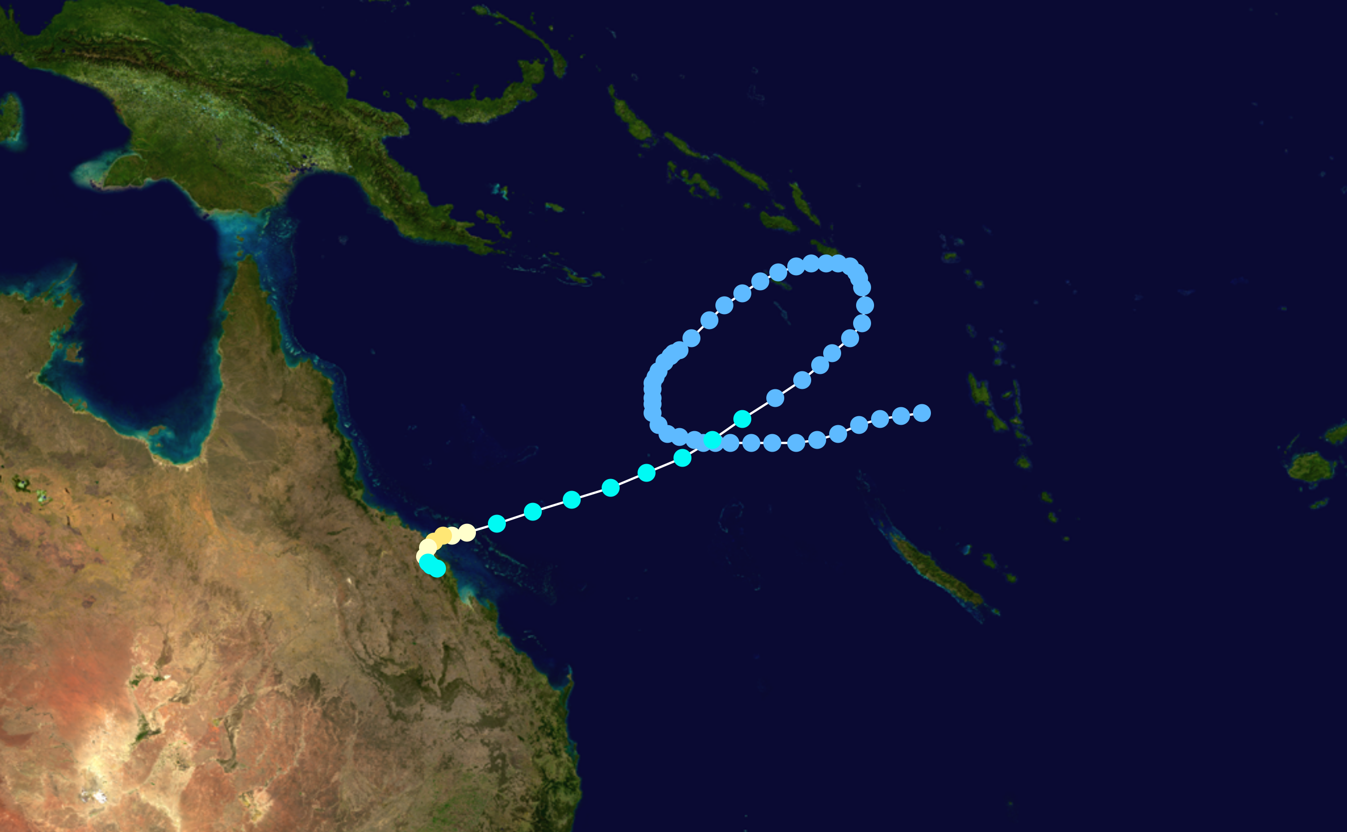 Cyclone Ada (1970) track. Uses the color scheme from the Saffir-Simpson Hurricane Scale. The points show the location of each storm at six-hour intervals. The colour represents the storm's maximum sustained wind speeds as classified in the Saffir-Simpson Hurricane Scale (see below), and the shape of the data points represent the nature of the storm. Saffir–Simpson scale Tropical depression≤38 mph≤62 km/h Category 3111–129 mph178–208 km/h Tropical storm39–73 mph63–118 km/h Category 4130–156 mph209–251 km/h Category 174–95 mph119–153 km/h Category 5≥157 mph≥252 km/h Category 296–110 mph154–177 km/h Unknown Storm type Tropical cyclone Subtropical cyclone Extratropical cyclone / Remnant low / Tropical disturbance